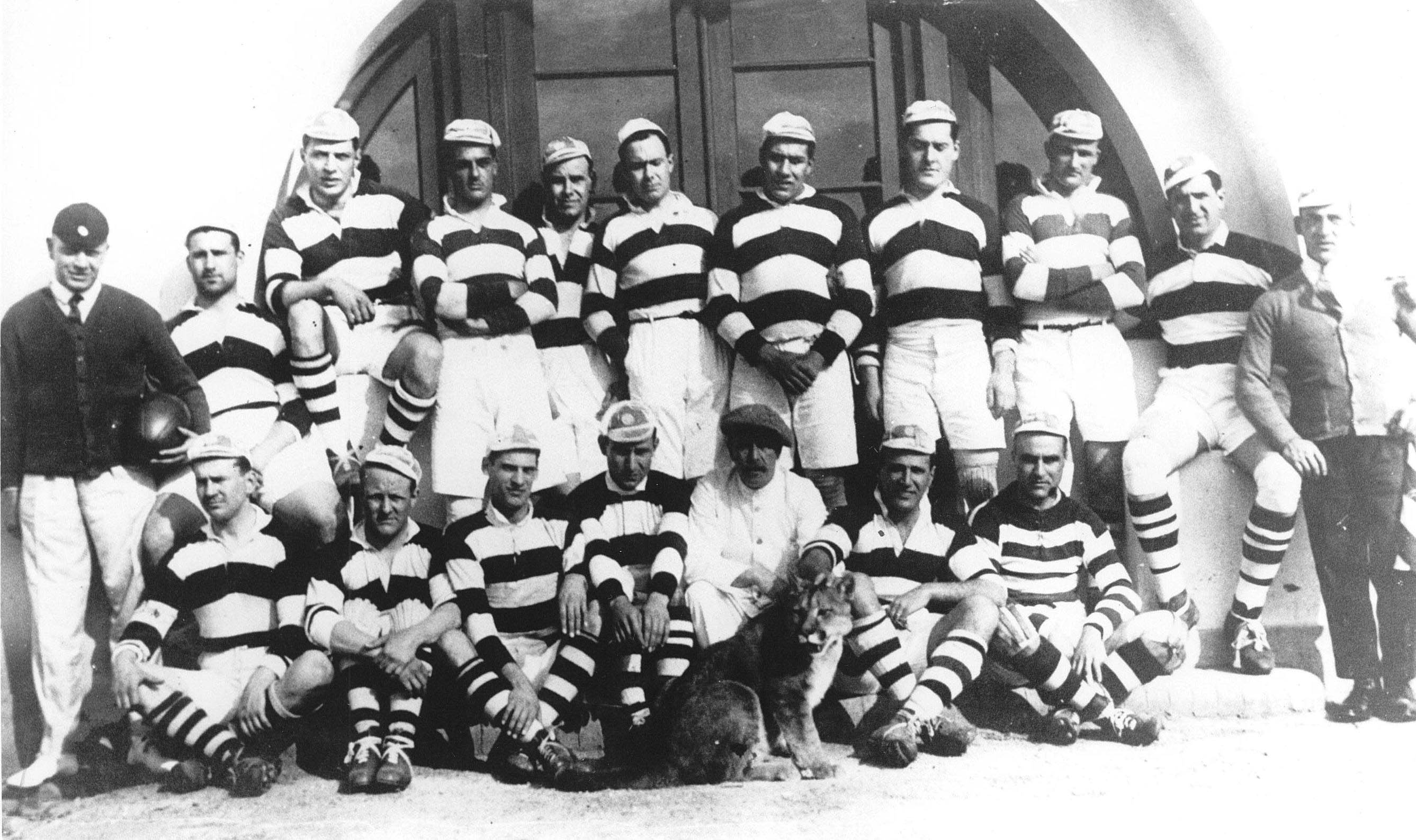 Rugby team of C.A. San Isidro, posing with a puma (South American jaguar).